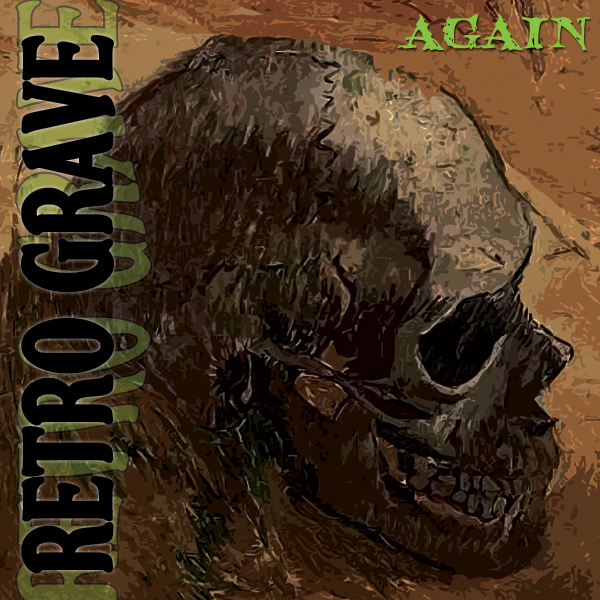 Retro Grave debut full-length cover "Again" (2010) featuring Jeff Olson, original drummer of doom-metal legends Trouble.